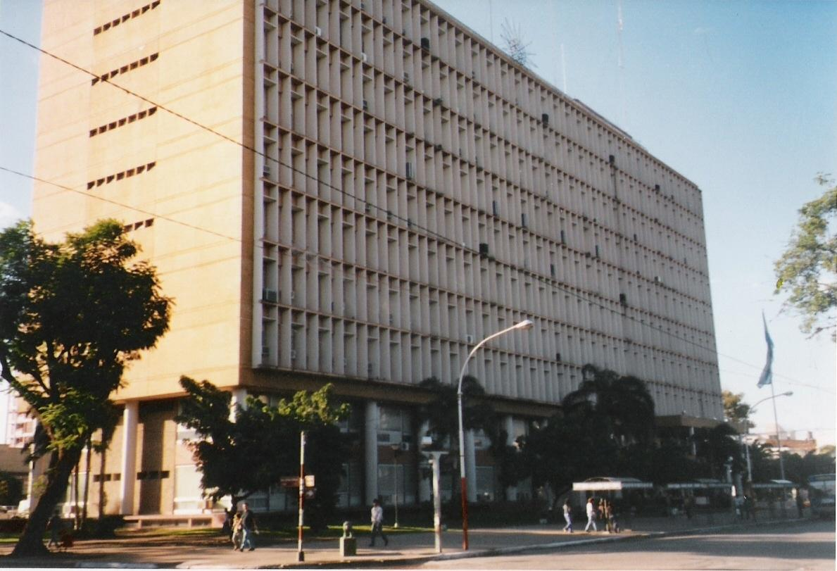 A picture of the front of a side of Chaco province's Government House, in Resistencia.